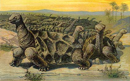 Cylindraspis vosmaeri. Tiere der Urwelt (Creatures of the Primitive World) Series 2 Card 12